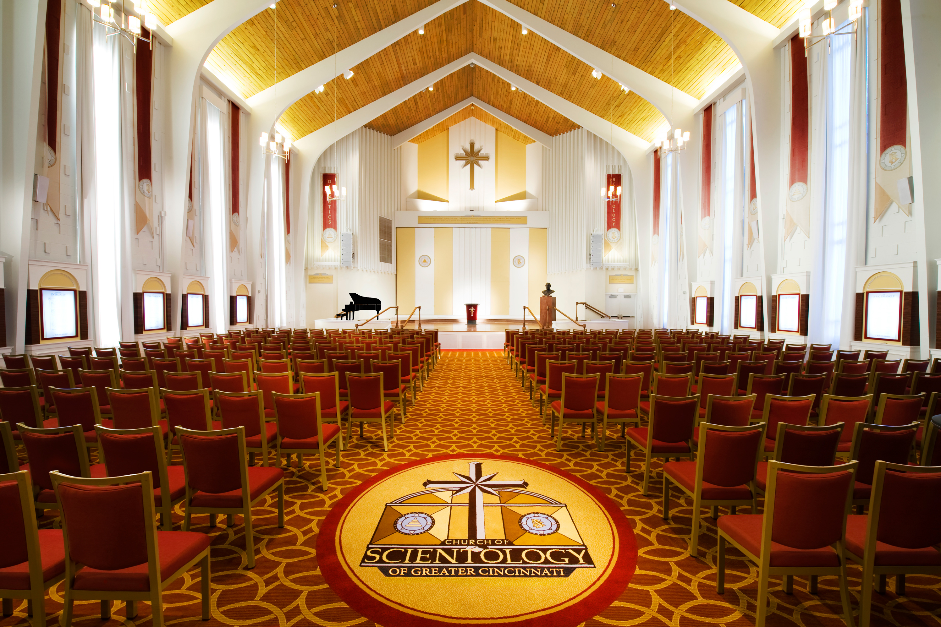 The Grand Chapel has been meticulously restored and converted for use by the Scientology religion. It stands as the centerpiece of the newly opened Church, providing for all Scientology congregational services and ceremonies, including Sunday Service, Weddings and Naming Ceremonies. It further serves as a venue for gatherings of all faiths and community-wide events.